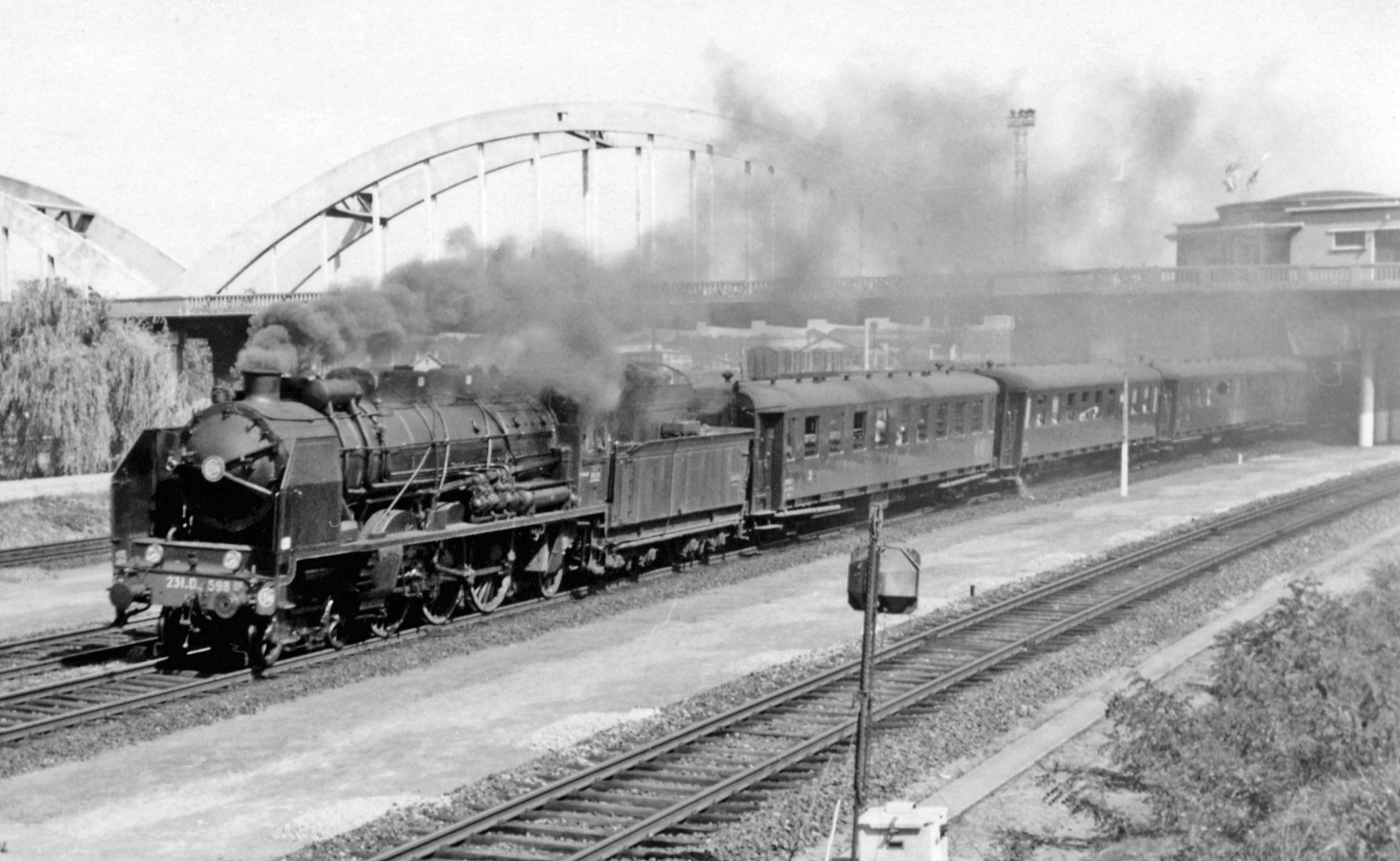 Achères (Seine et Oise), 1959: Paris St Lazare - Caen express passing with a class 231-D 4-6-2.